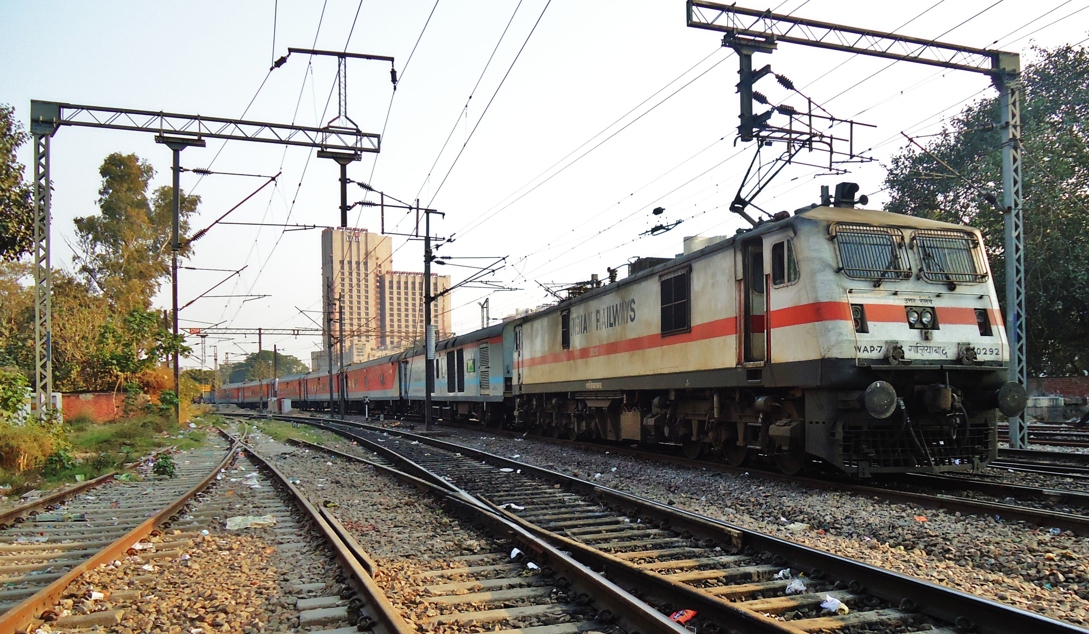 12301 Rajdhani at NDLS